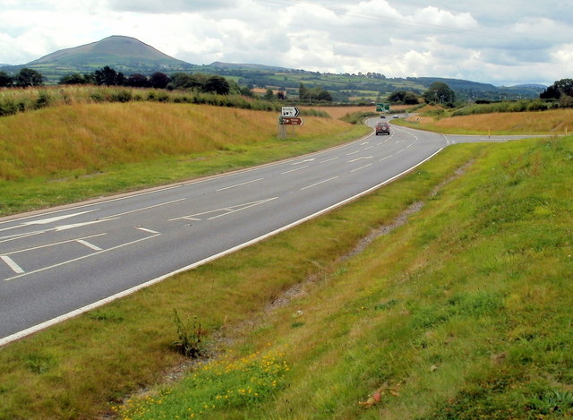 Bronllys bypass - eastern side